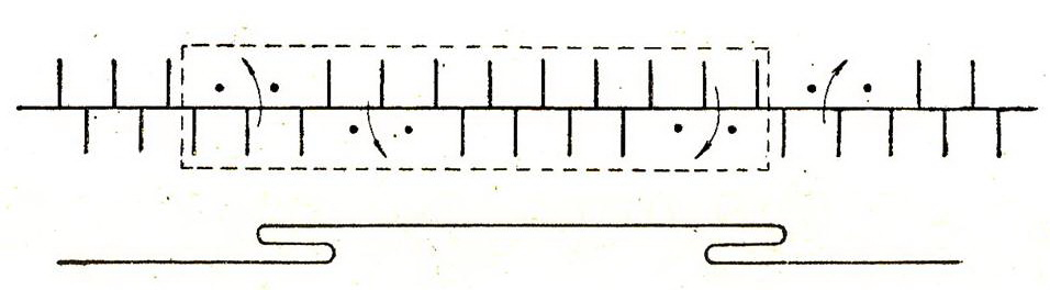 Box pleat made on double-bed weft knitting machine